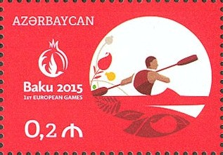 Baku 2015. First European Games.(2nd edition) N 1210 - 20 qapik – Canoe Sprint